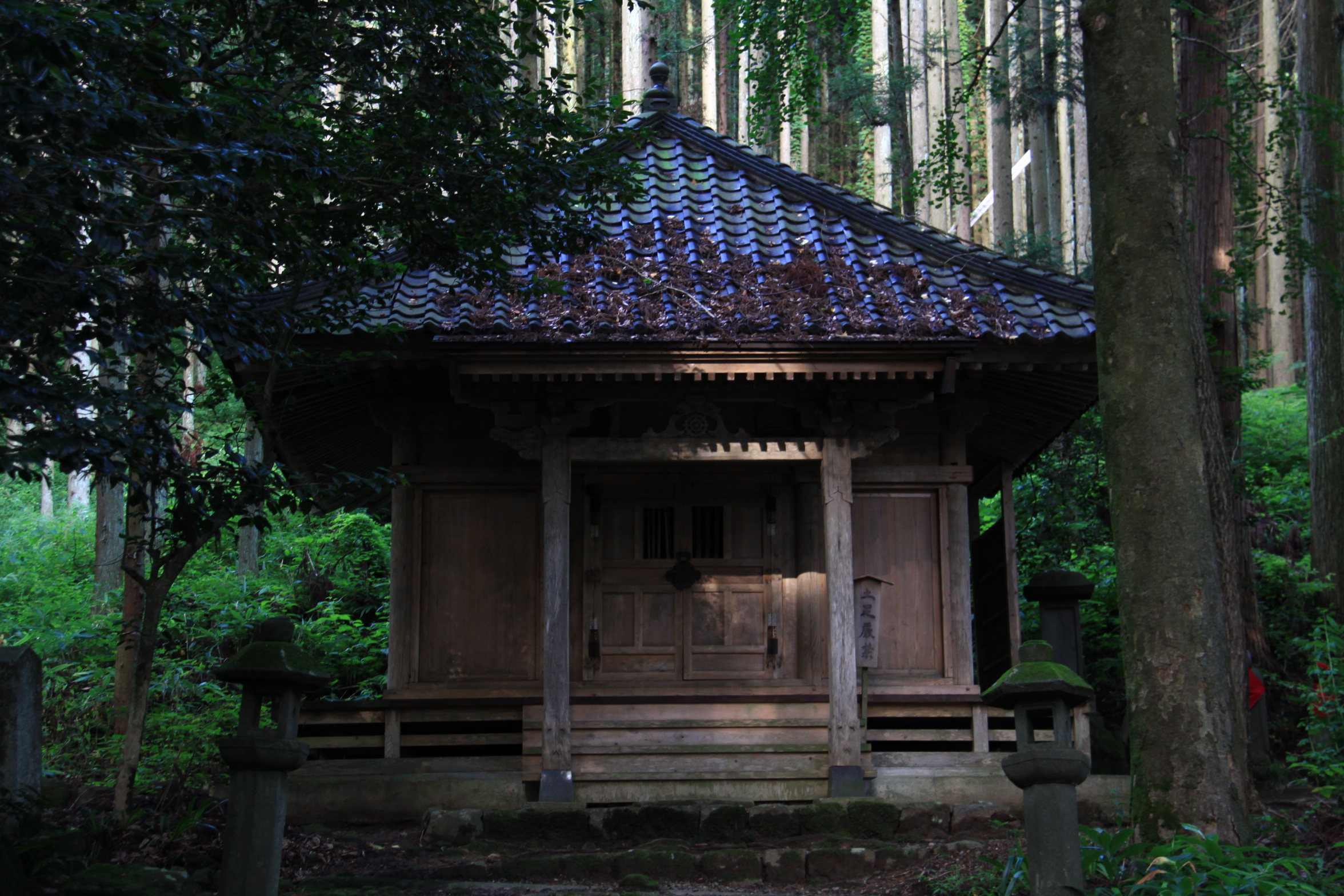 Musoudou